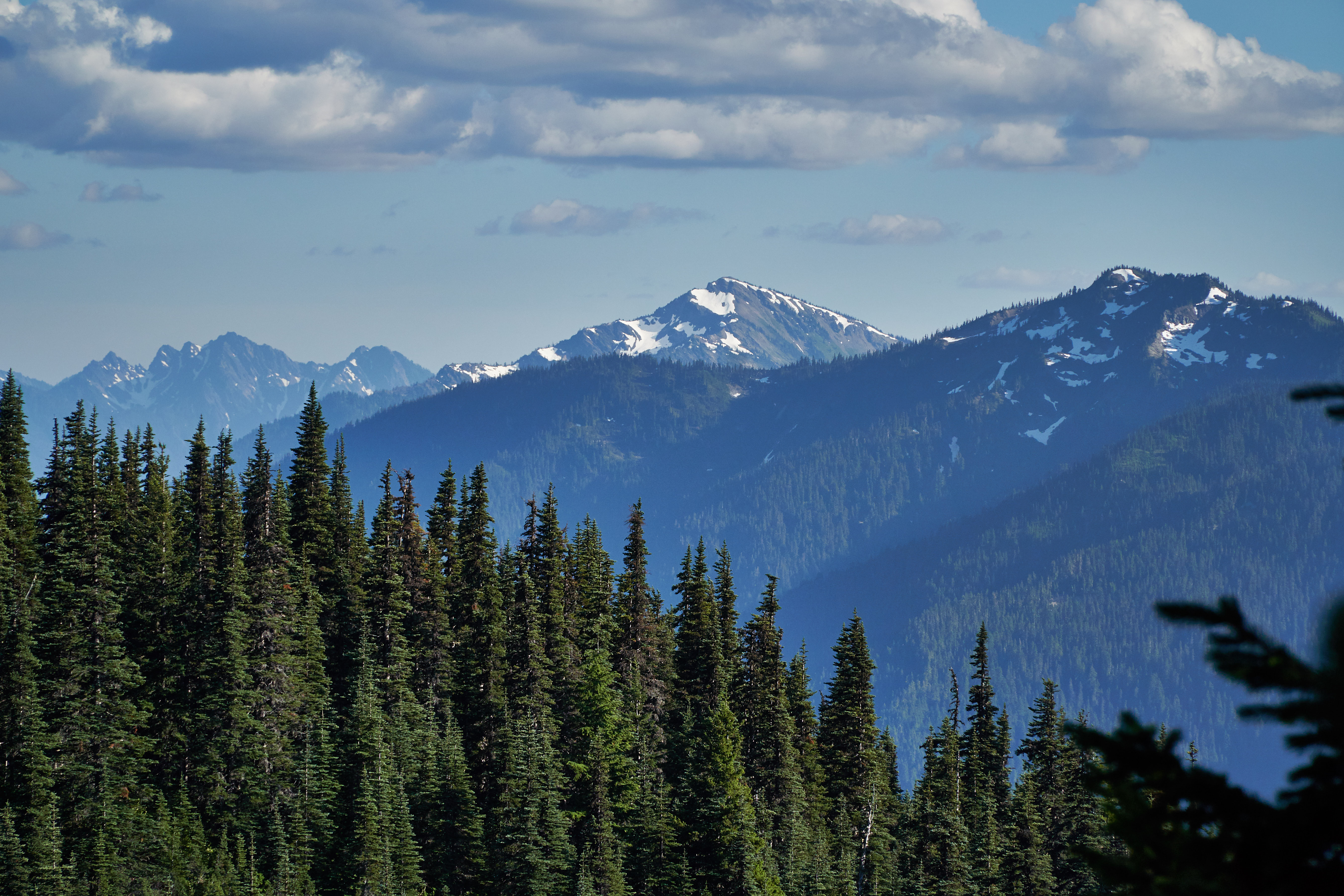 Mount Dana in Olympic National Park